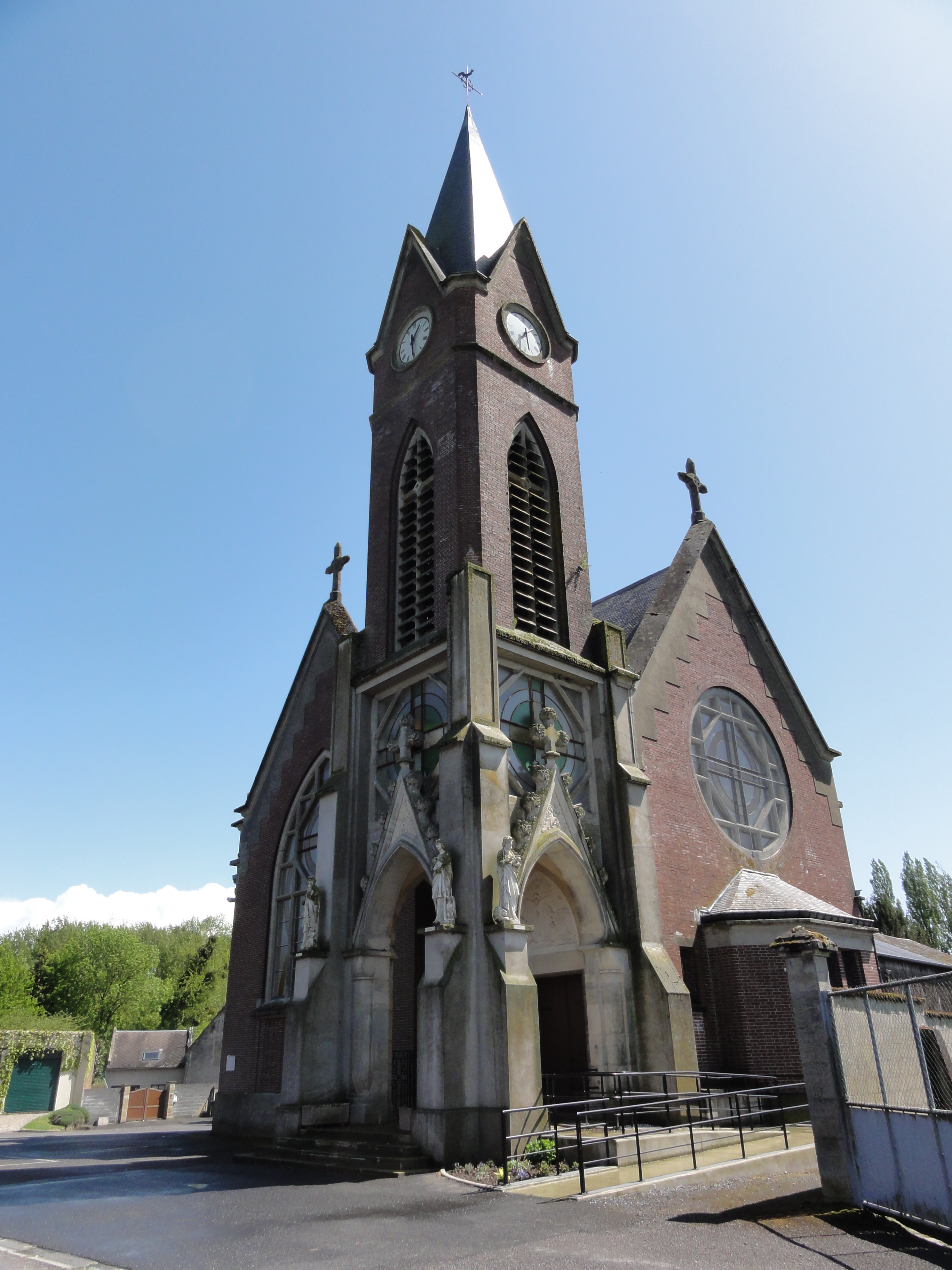 Mézières-sur-Oise (Aisne) église Saint-Pierre et Saint-Paul